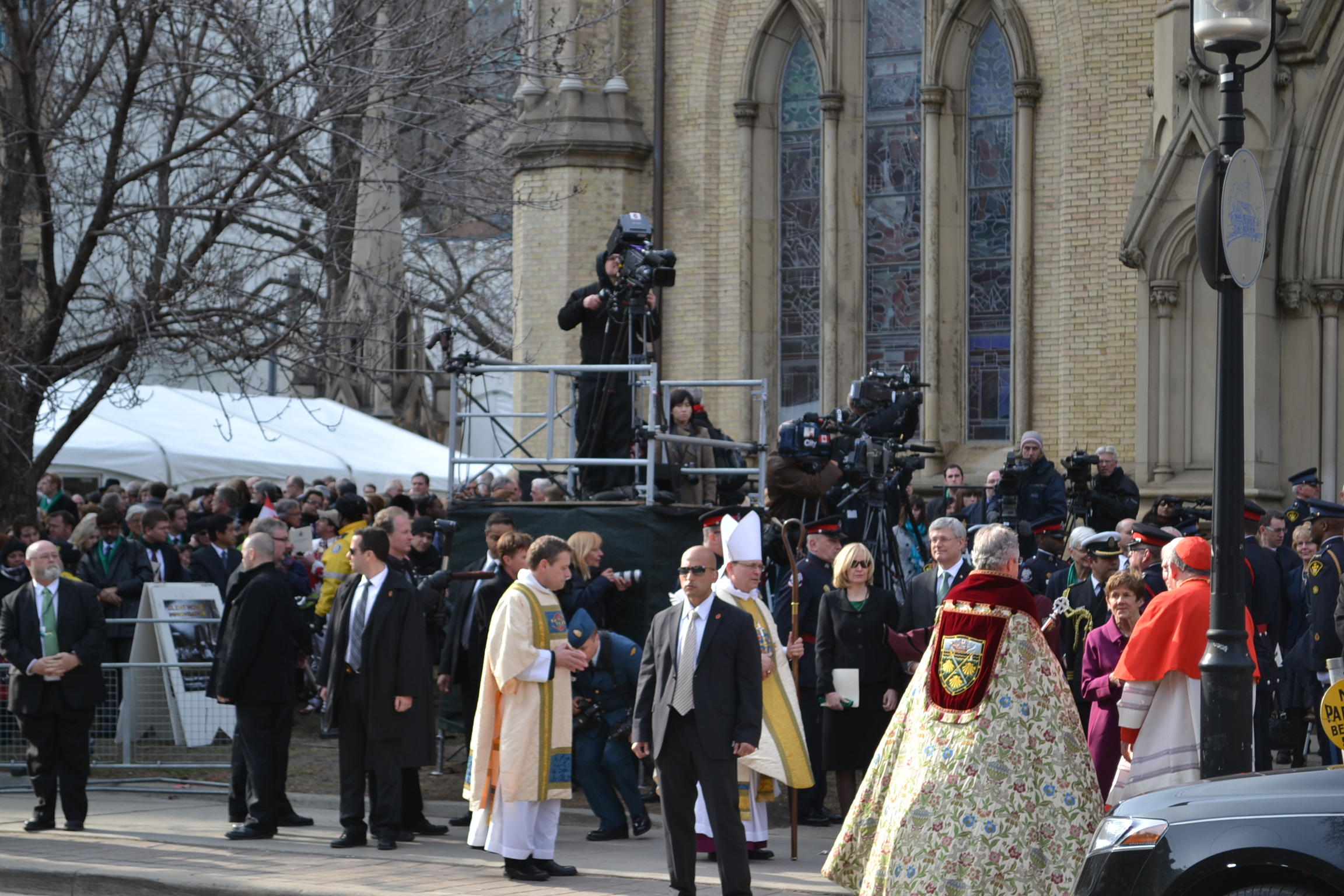 Jim Flaherty's state funeral held at the St. James church in Toronto, Ontario, Canada on April 16, 2014.